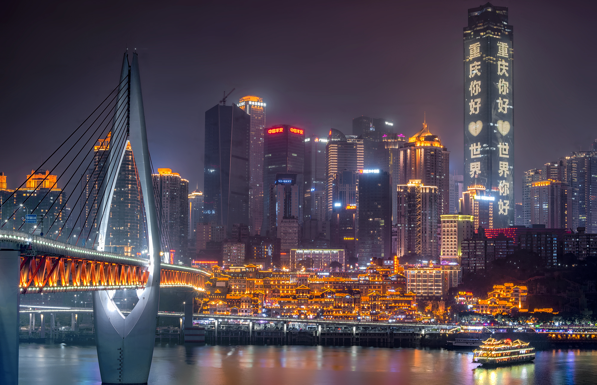 Qiansimen Bridge, Hongya Cave, and Chongqing World Financial Centre